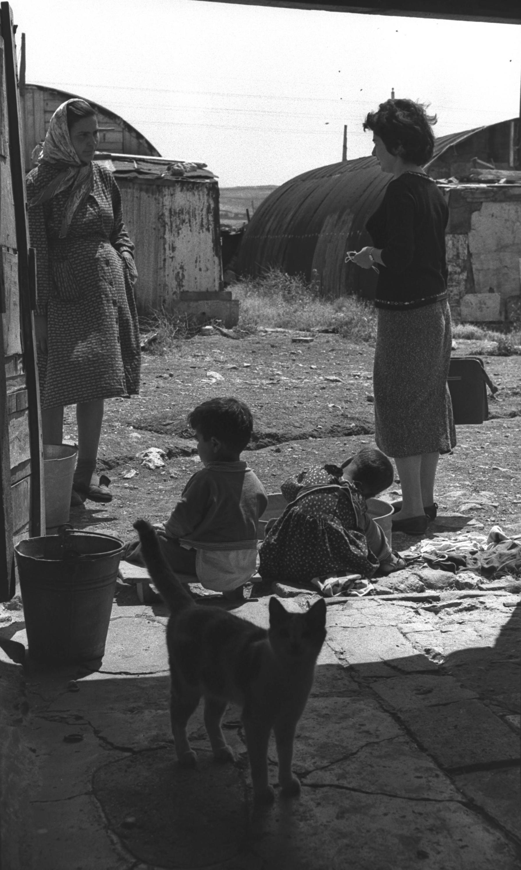 Tsocial worker visits the Talpiot Maabarah in Jerusalem.